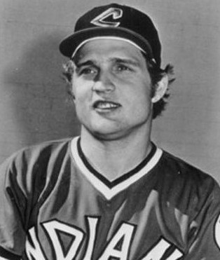 Image cropped from a 1977 Cleveland Indians Postcard of baseball player Jim Norris.